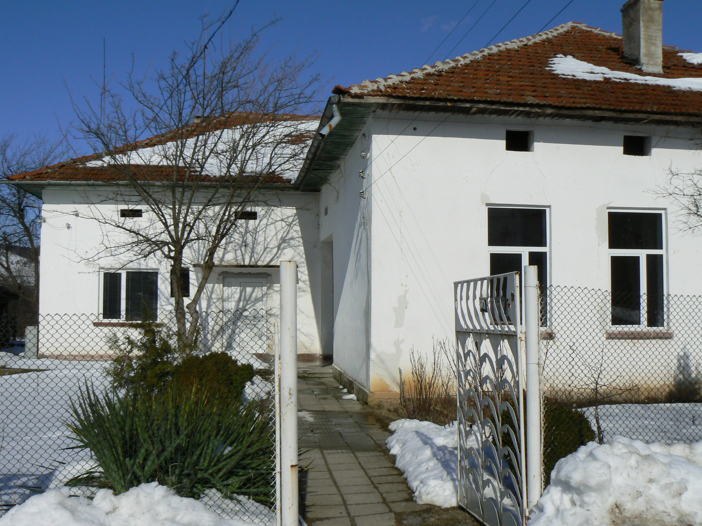 The mayors office of village Dabravata, Bulgaria